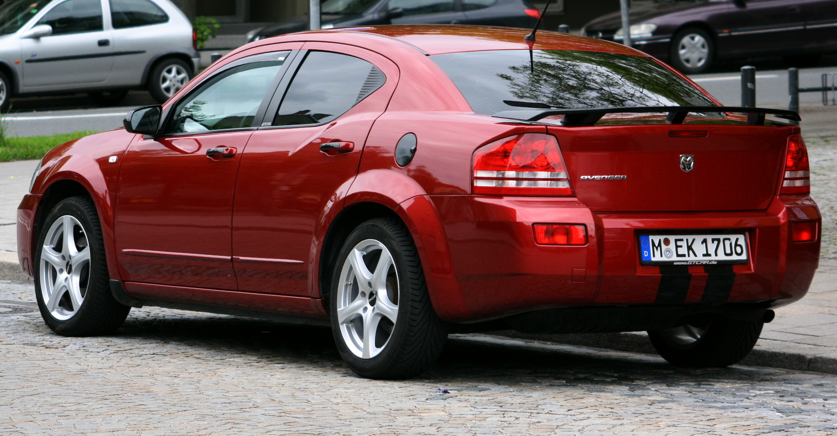 Dodge Avenger